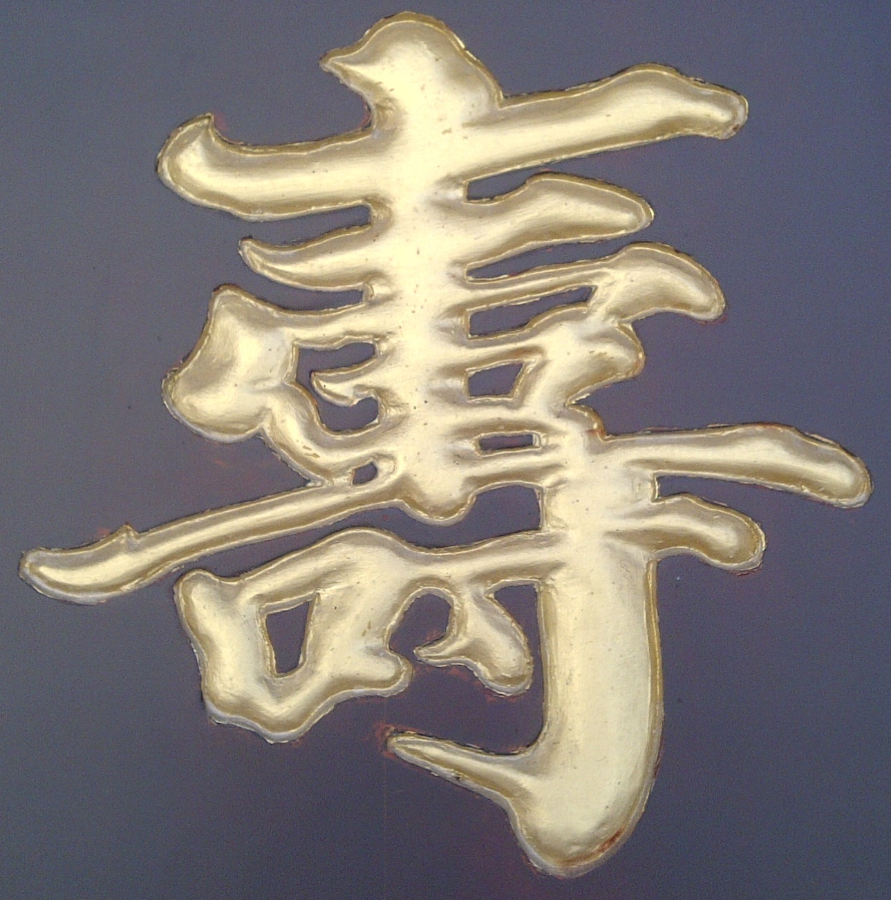 Chinese character Shou (longevity)